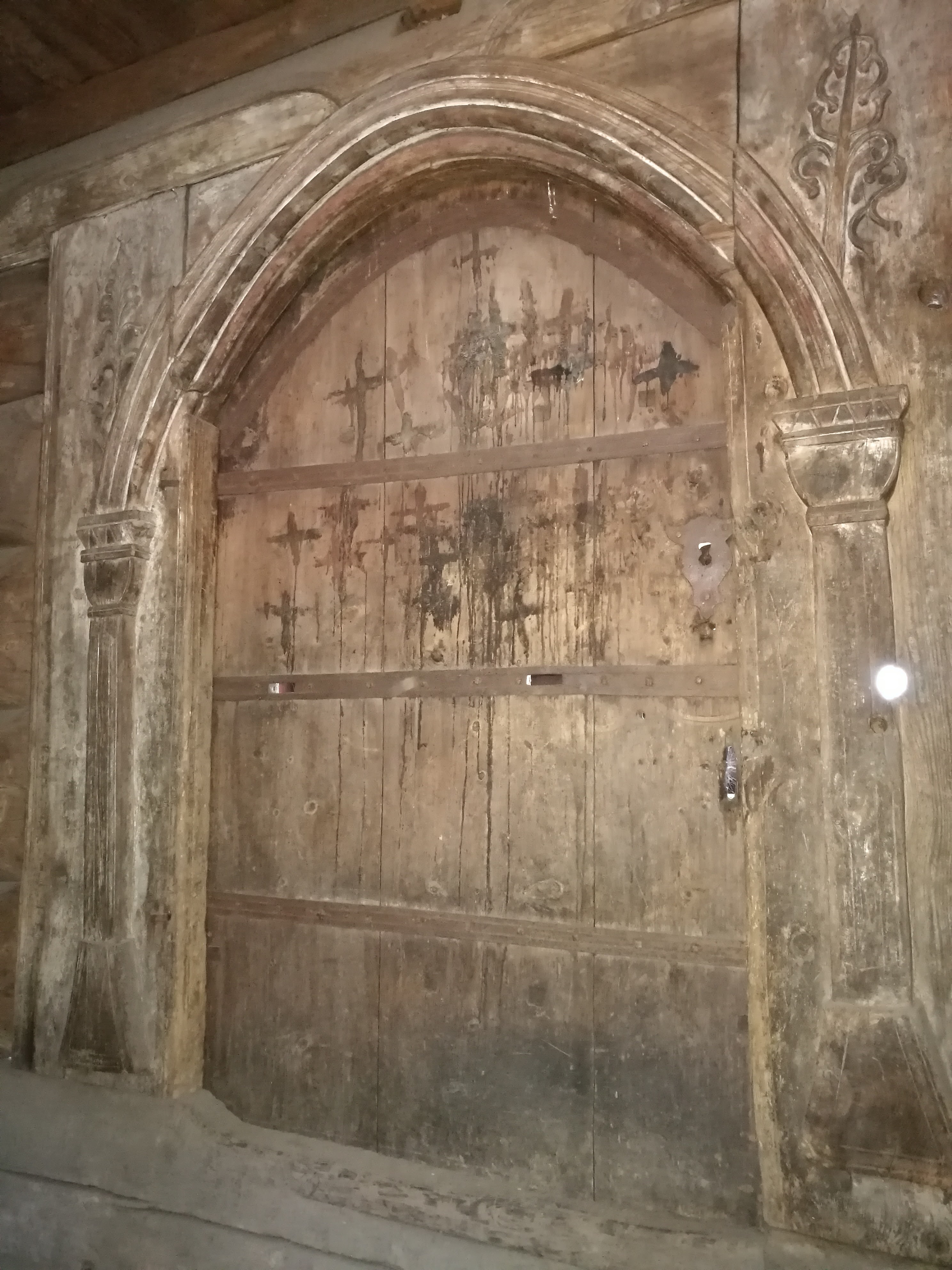 Decorated door and portal inside 14th century building Lydvaloftet, Voss, Norway